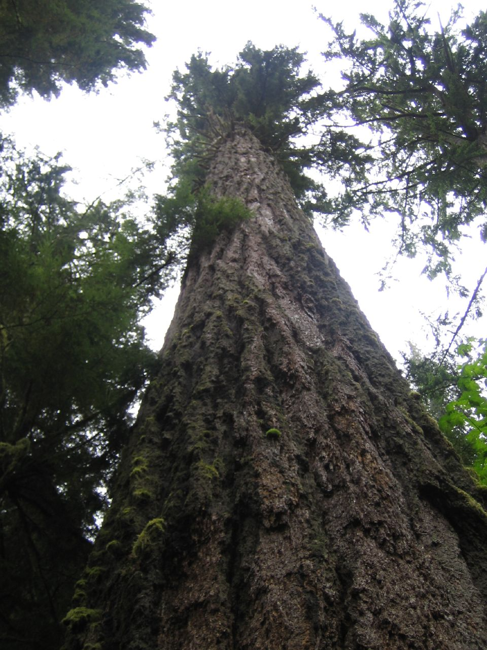 800-year-old Douglas-fir in Cathedral Grove at Port Alberni, BCBiggest Tree